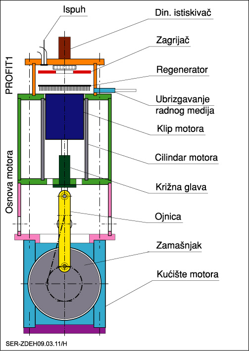 NSC-motor (PROFIT1)